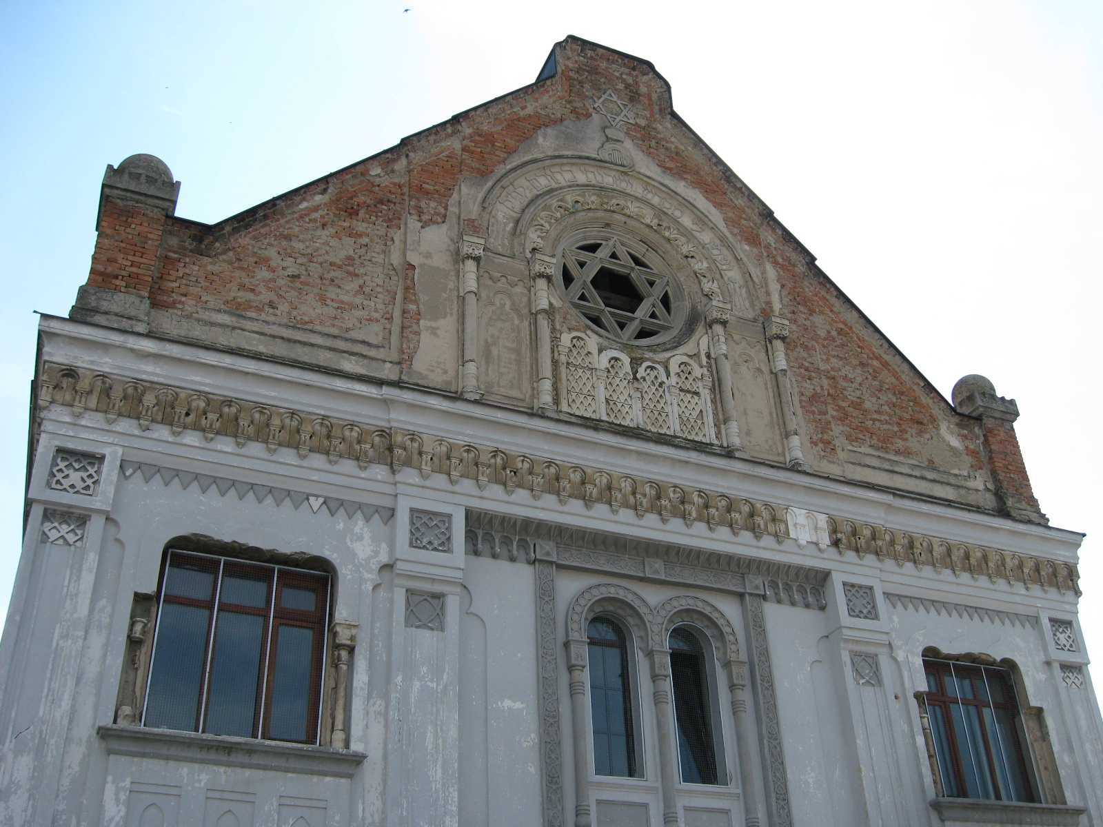 The synagogue in Šurany, Slovakia.